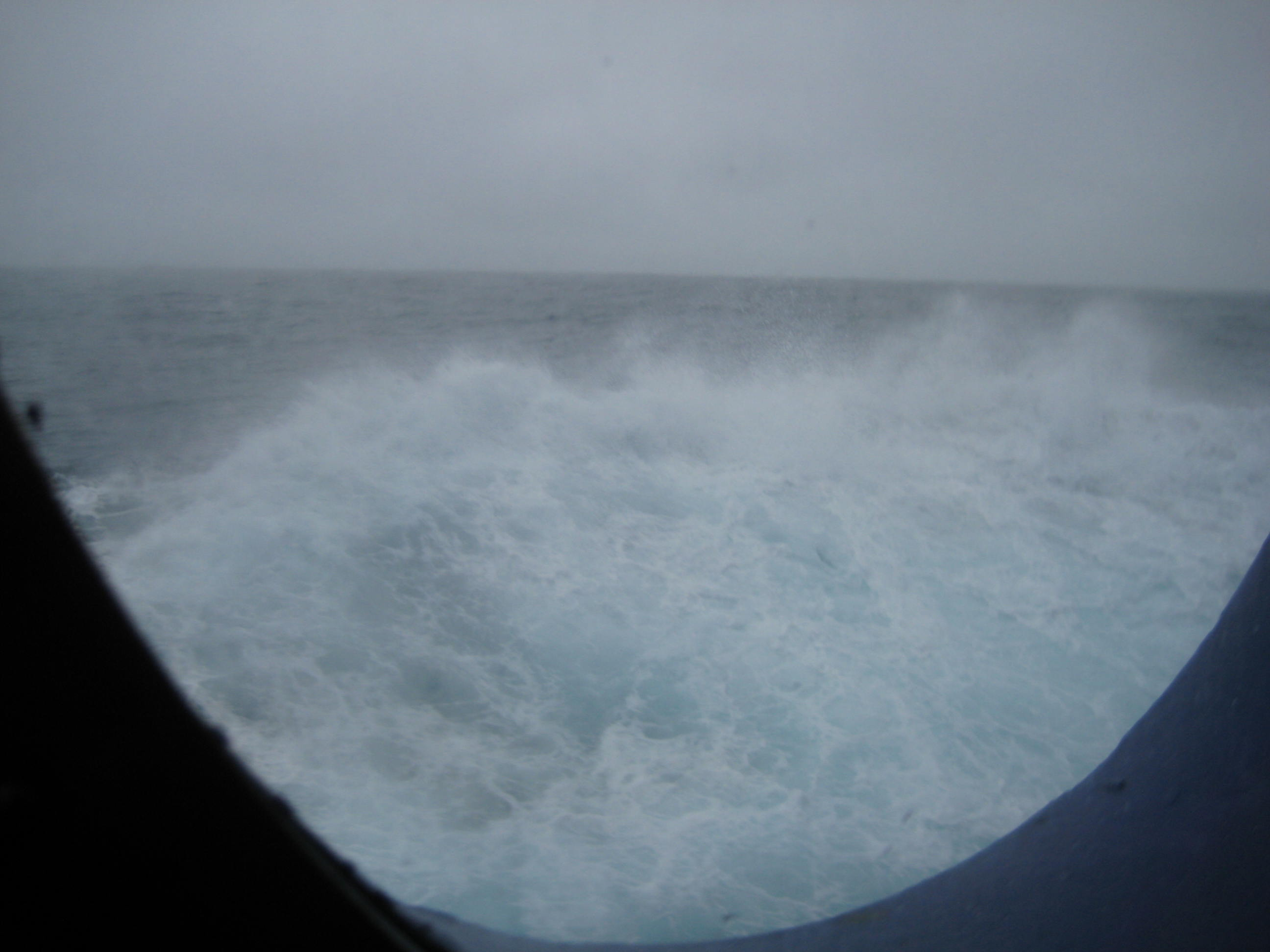 when it is not nice outside!!!